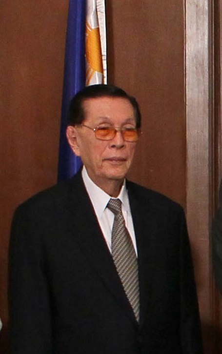 Cropped photo of Philippine Senate President Juan Ponce Enrile (2008-present) from a U.S. Embassy photo.